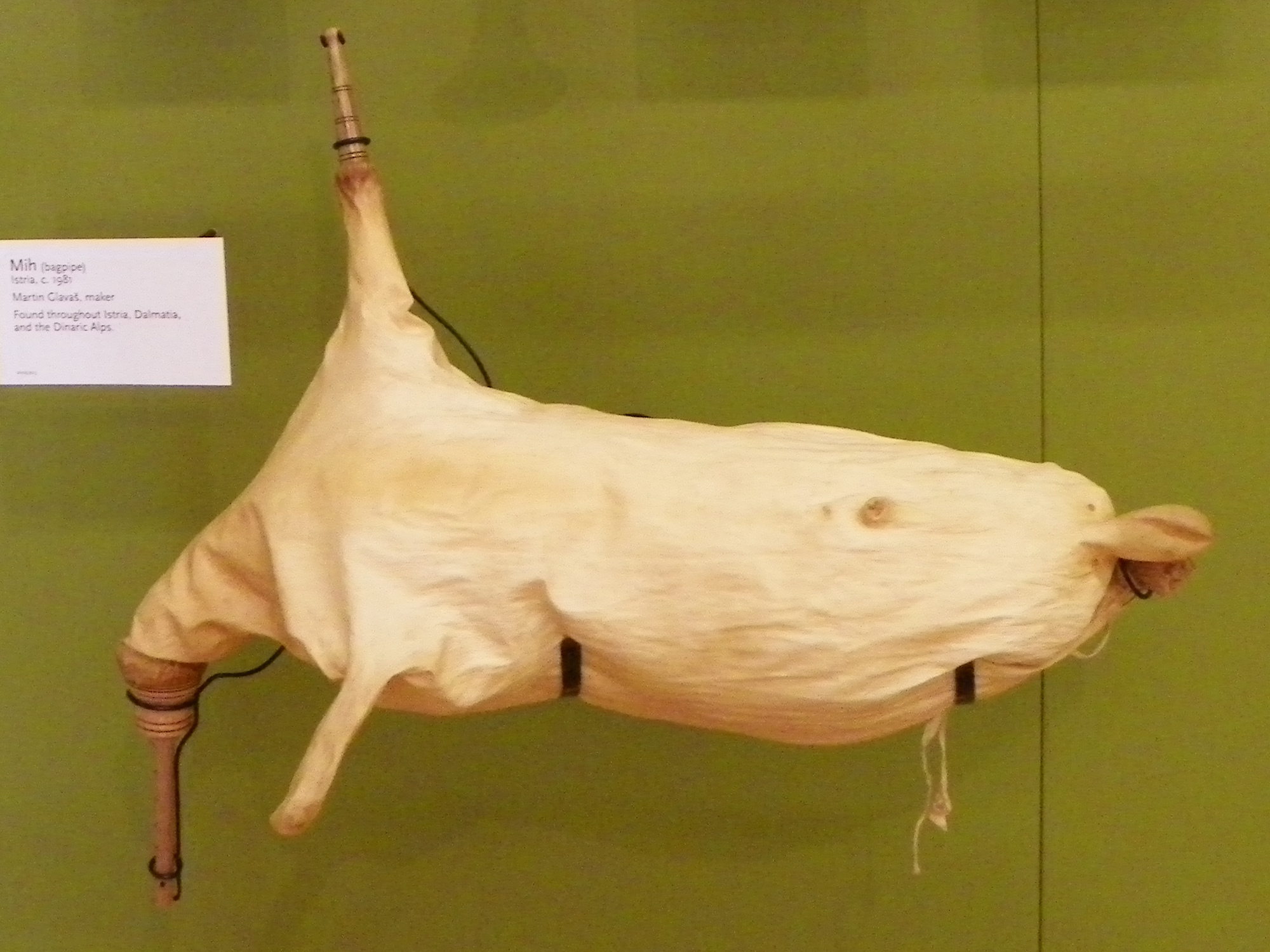 A mih (bagpipe) from Istria, Croatia Photograph of musical instruments taken at the Musical Instrument Museum (Phoenix) on 2011-04-26. Mih (bagpipe) Istria, c. 1981 Martin Glavaš, maker Found throughout Istria, Dalmatia, and the Dinaric Alps. .